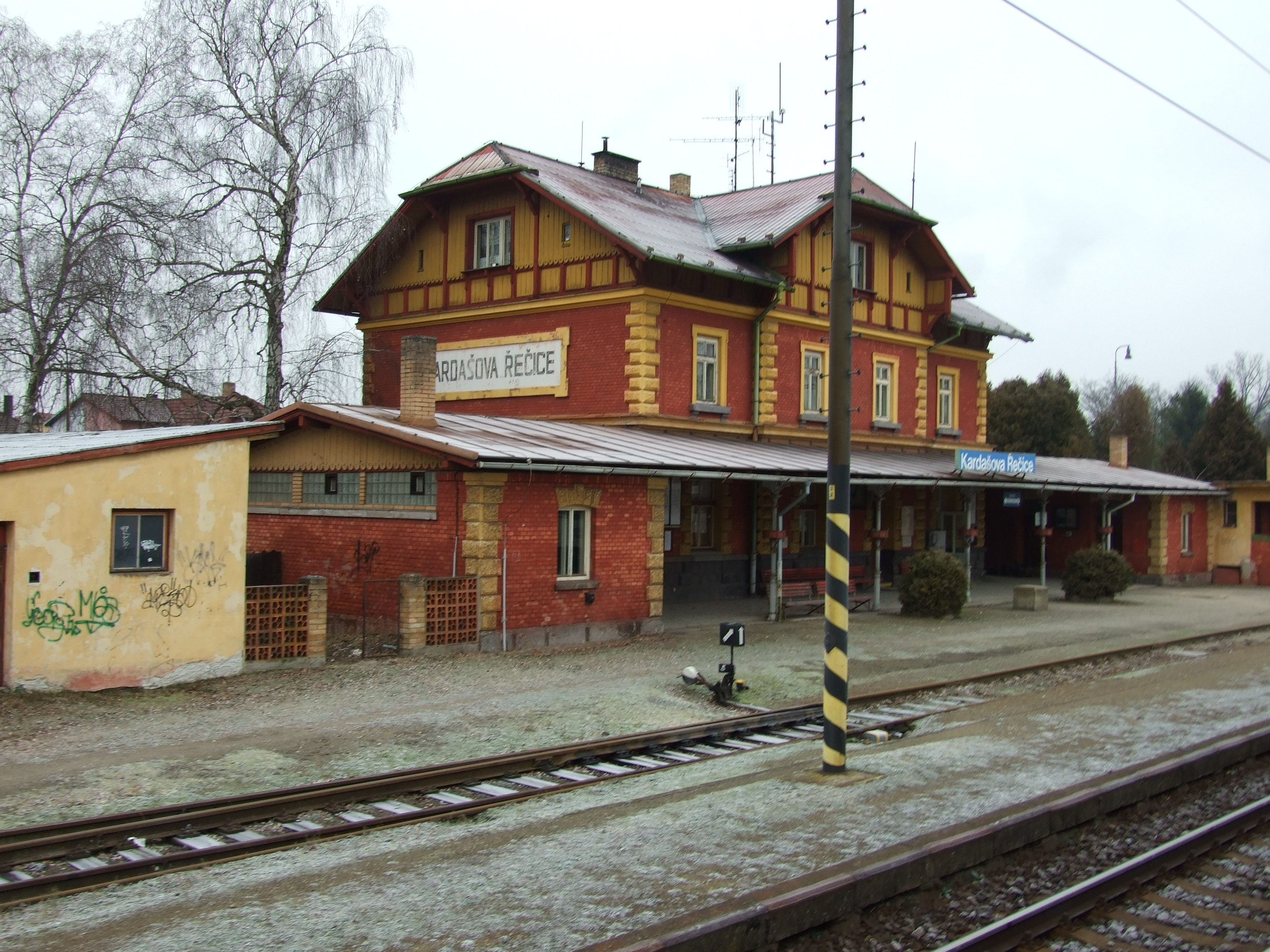 Rail station in Kardašova Řečice, South Bohemian Region, CZ